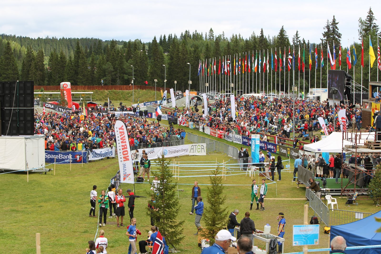 World Orienteering Championships 2010 in Trondheim, Norway